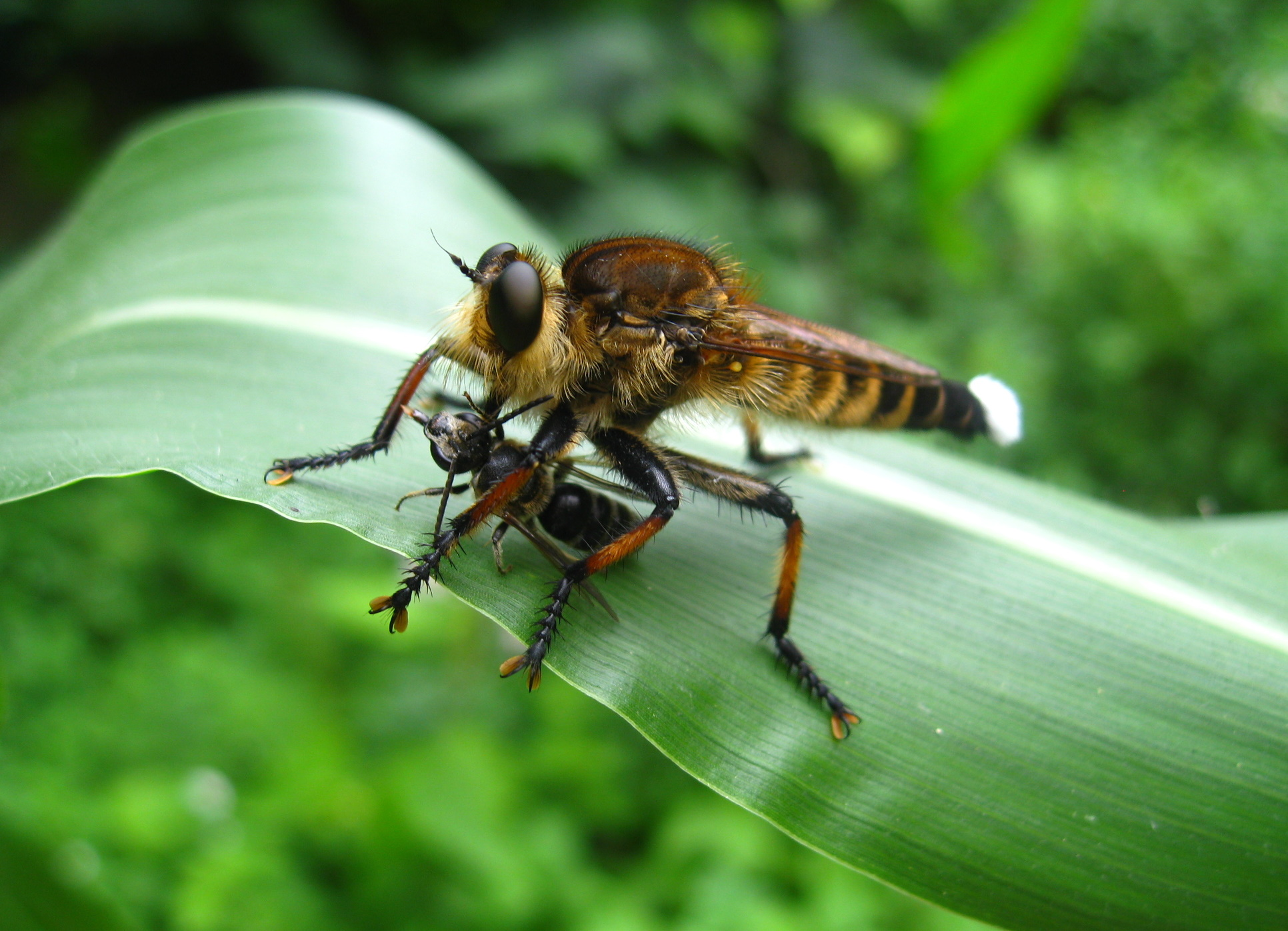 A picture of the Robber Fly Promachus yesonicus, (シオヤアブ in Japanese), taken with a Canon Power Shot SD850 IS digital Elph camera in Kyoto, Japan.